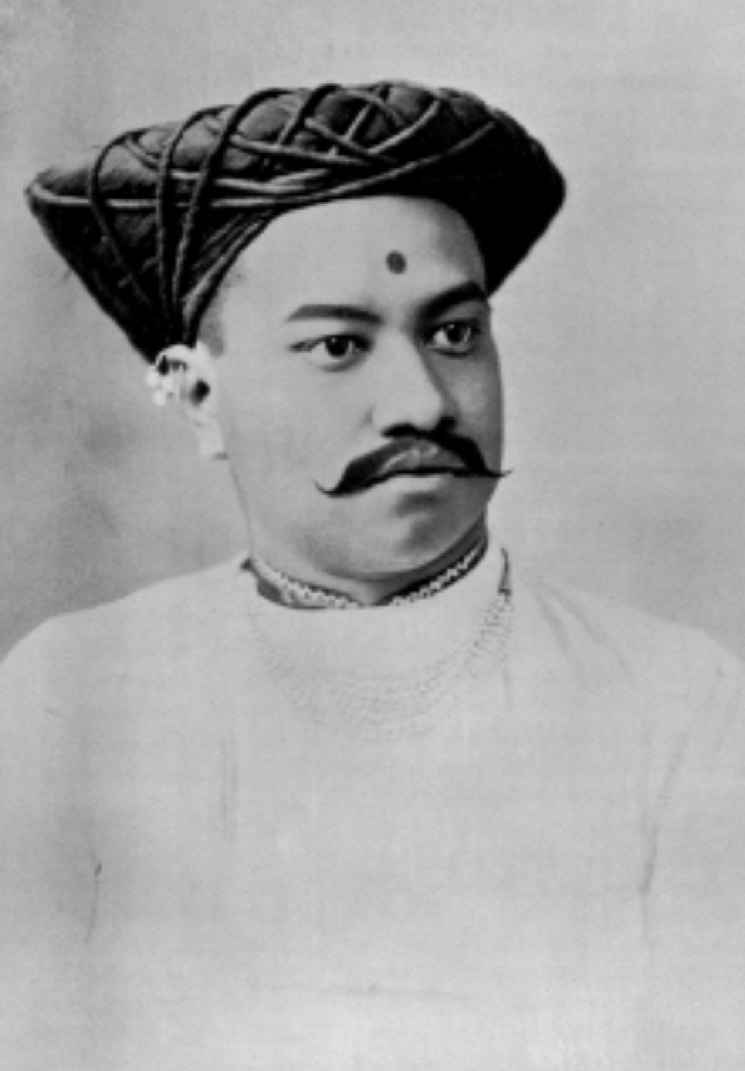 King Ganpat Rao Mukne Of Jawhar State